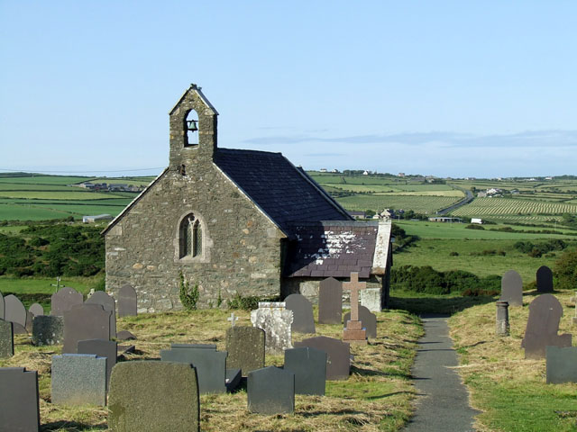 Sant Maethlu Church